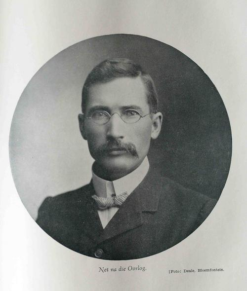 JBM Hertzog